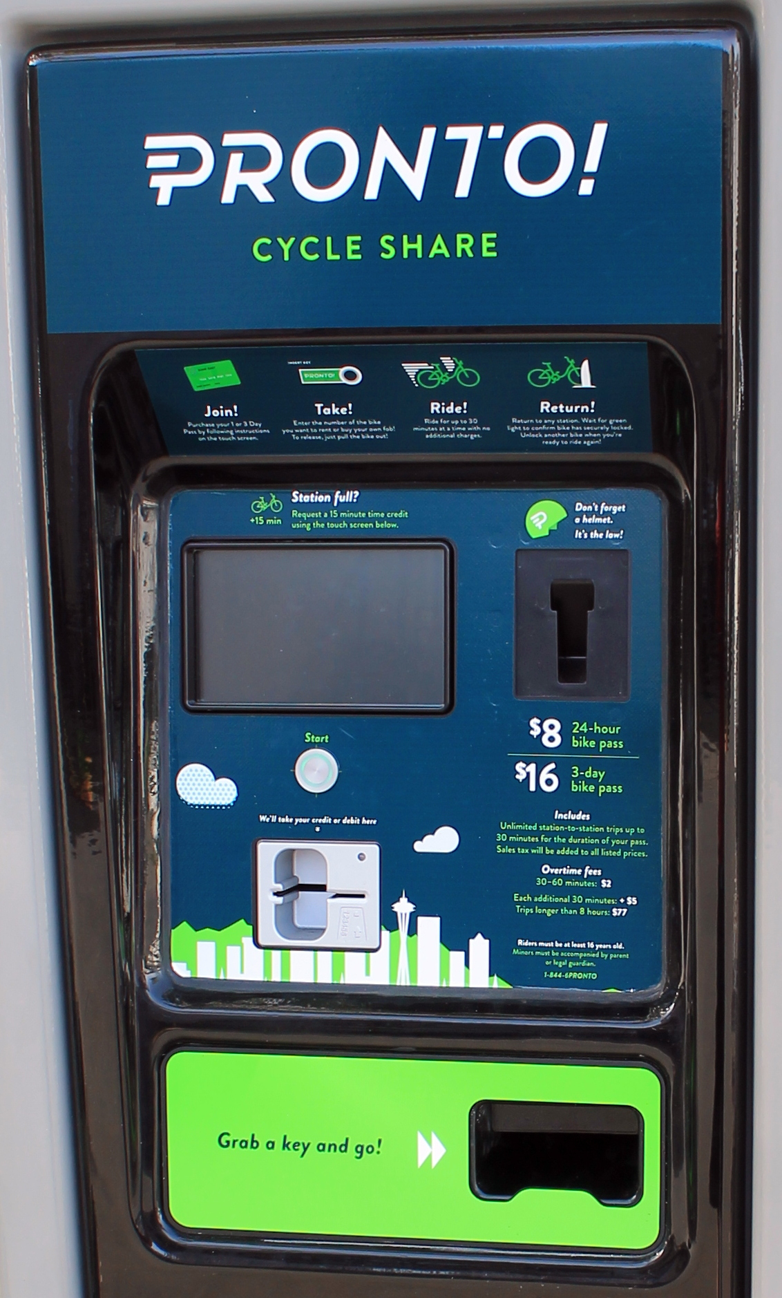 Pronto Cycle Share bike station interface.